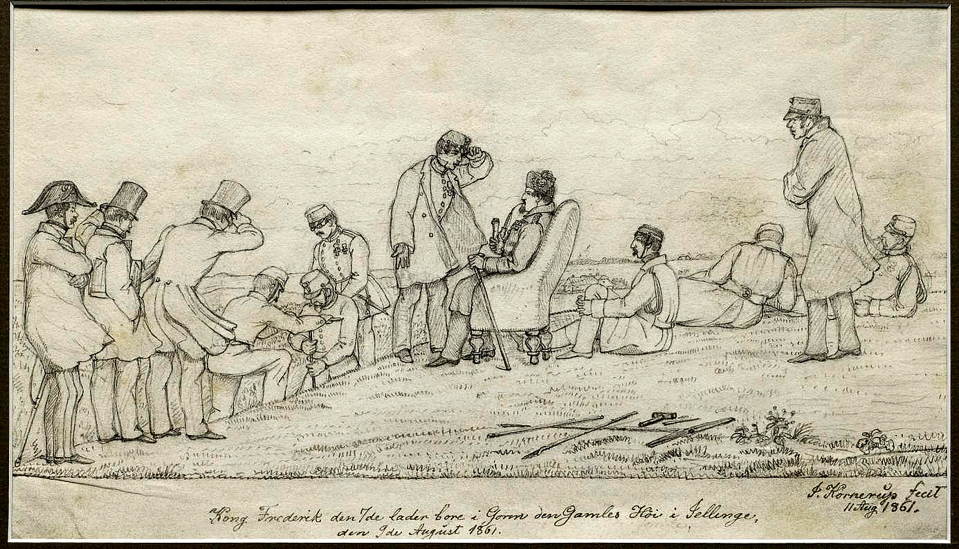 King Frederik VII of Denmark visiting the archeological excavations at Jelling in 1861. The drawing also exists in a slightly different version, c. this article.